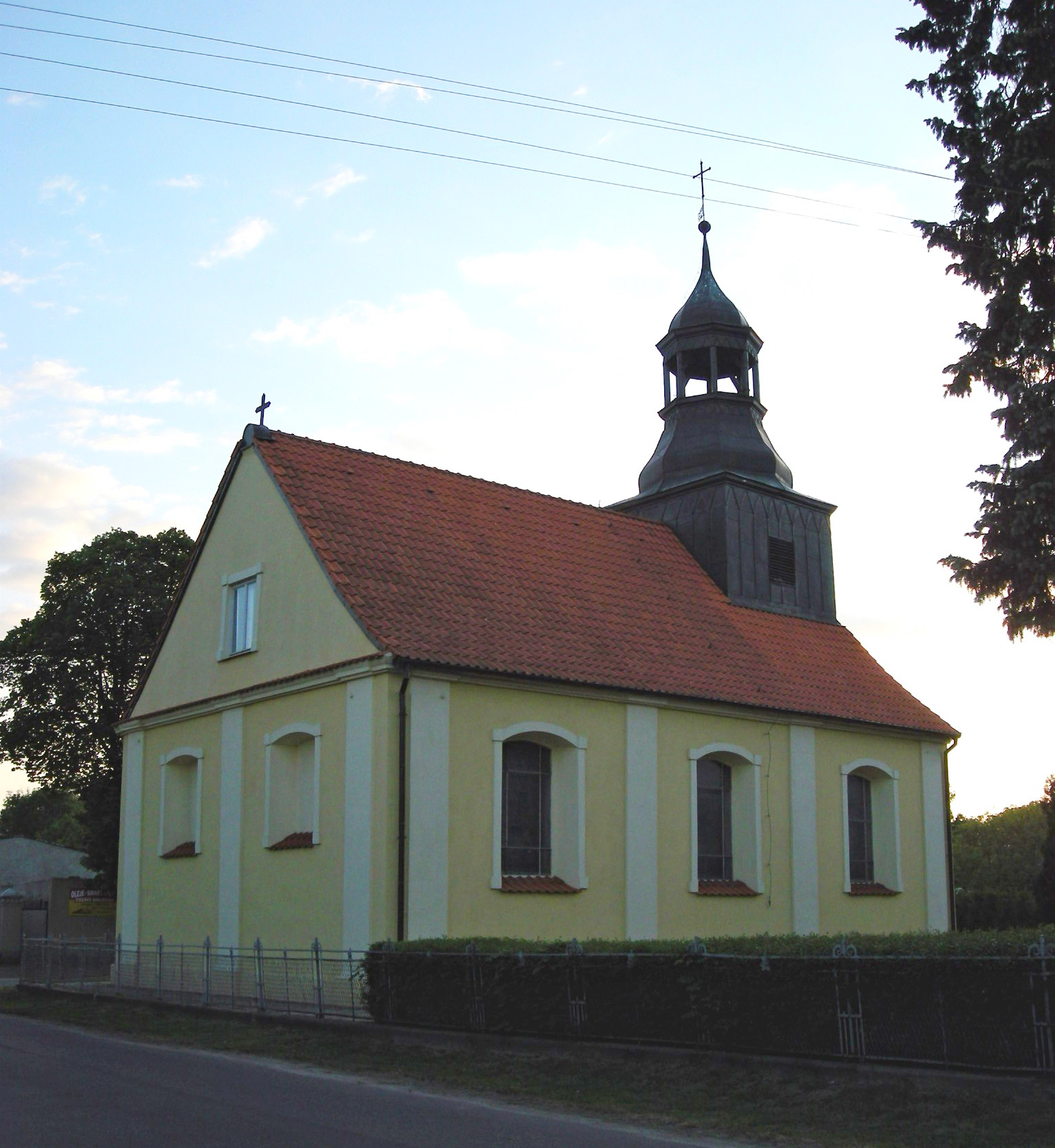 The church in Pęperzyn, Poland.